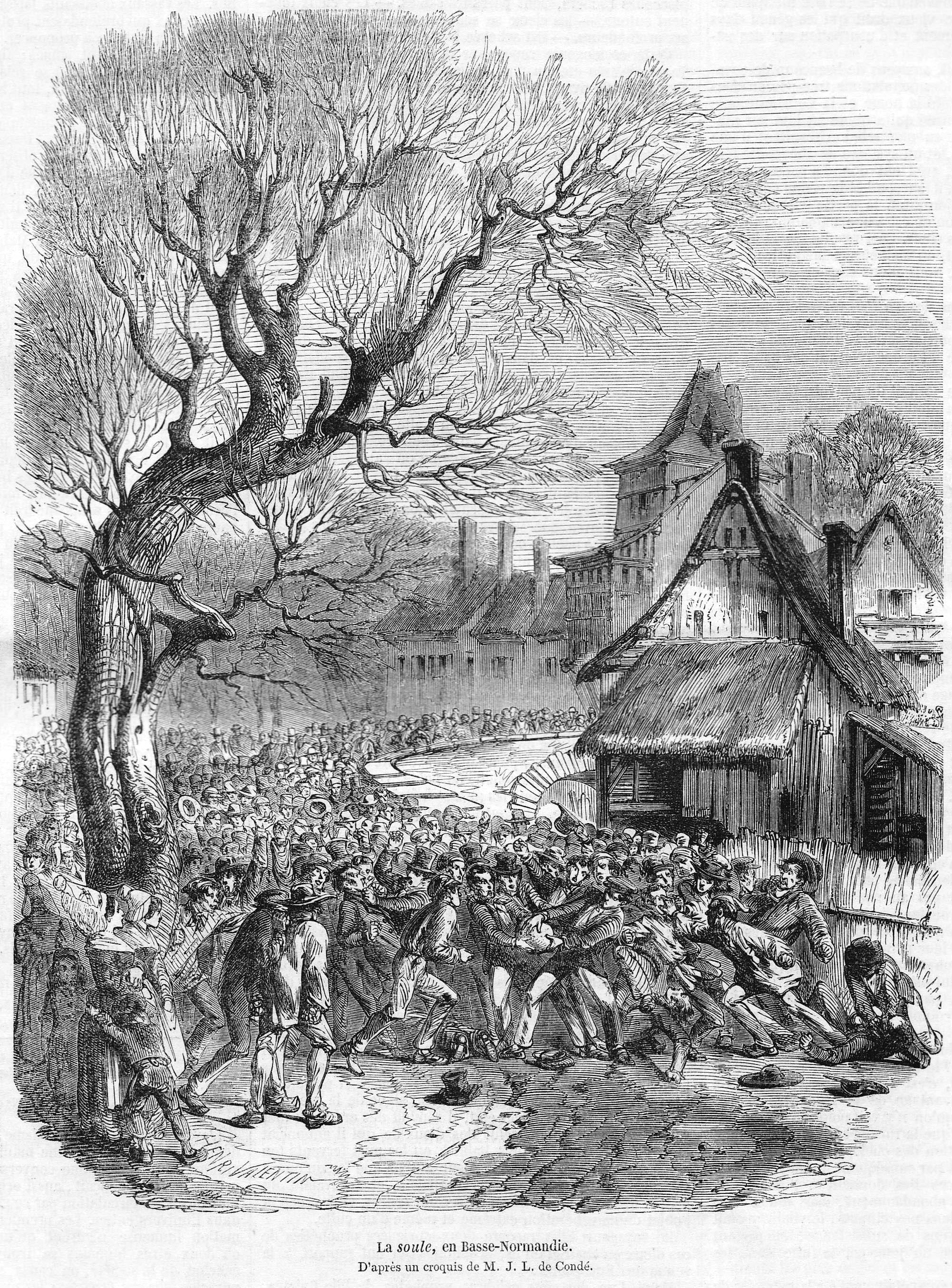 La soule (choule) in Lower Normandy, 1852: published in L'Illustration, 28 February 1852.